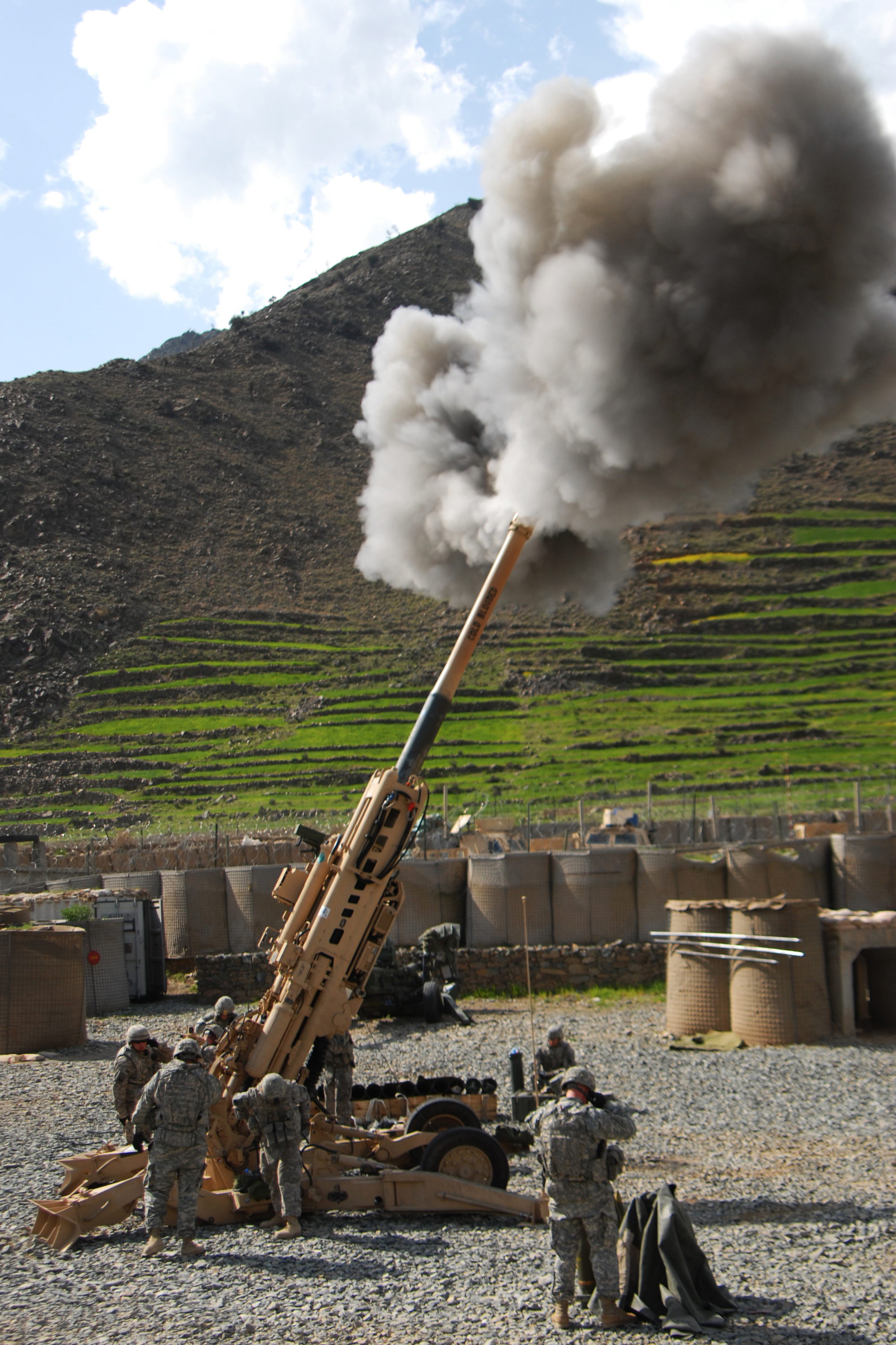 Members of Charlie Battery, 1st Battalion, 321st Field Artillery Regiment, 18th Fires Brigade (Airborne), fire the 9,900 lbs M-777 Howitzer Artillery Cannon at Forward Operating Base Bostick, March 17.